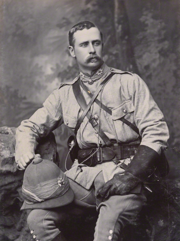 15th Marquess of Winchester by Unknown photographer, printing-out paper print, 1890s